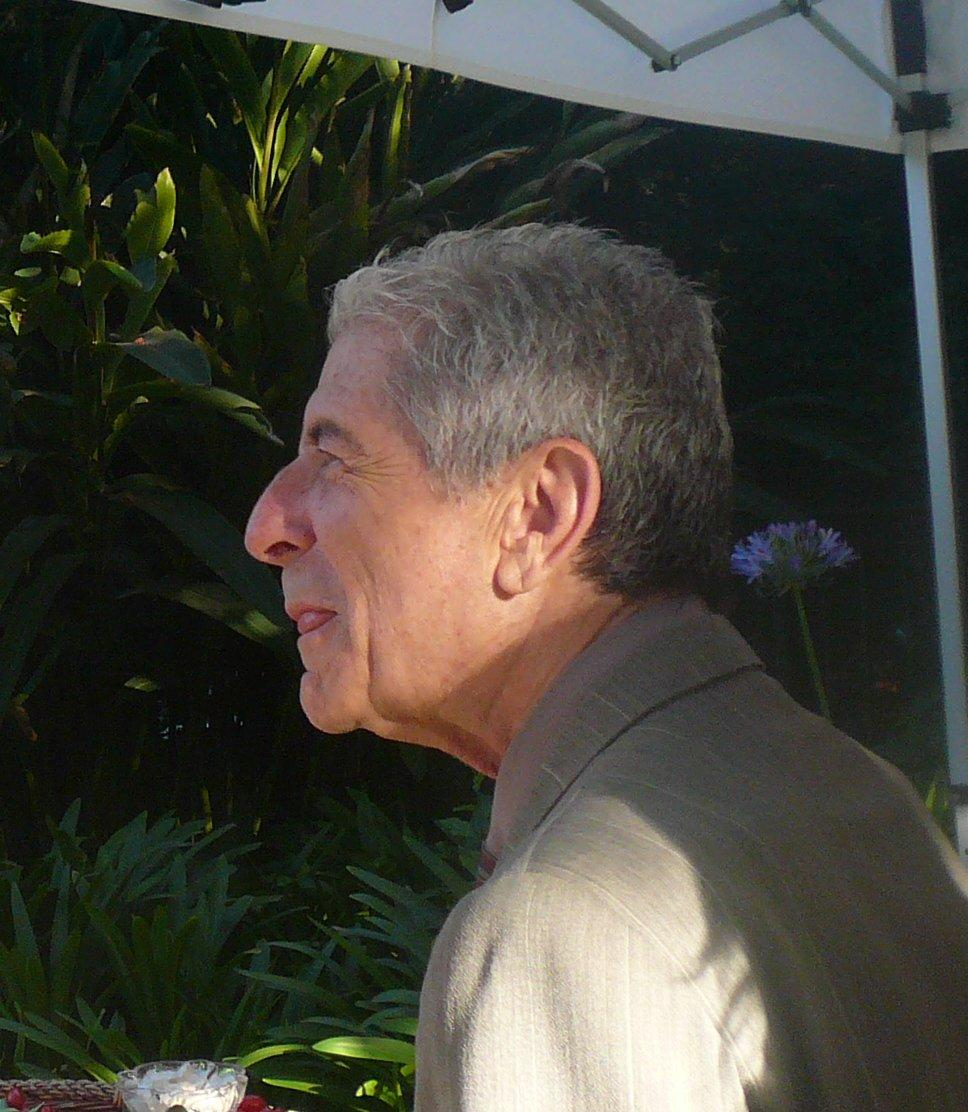 Leonard Cohen on Canada Day, 2007